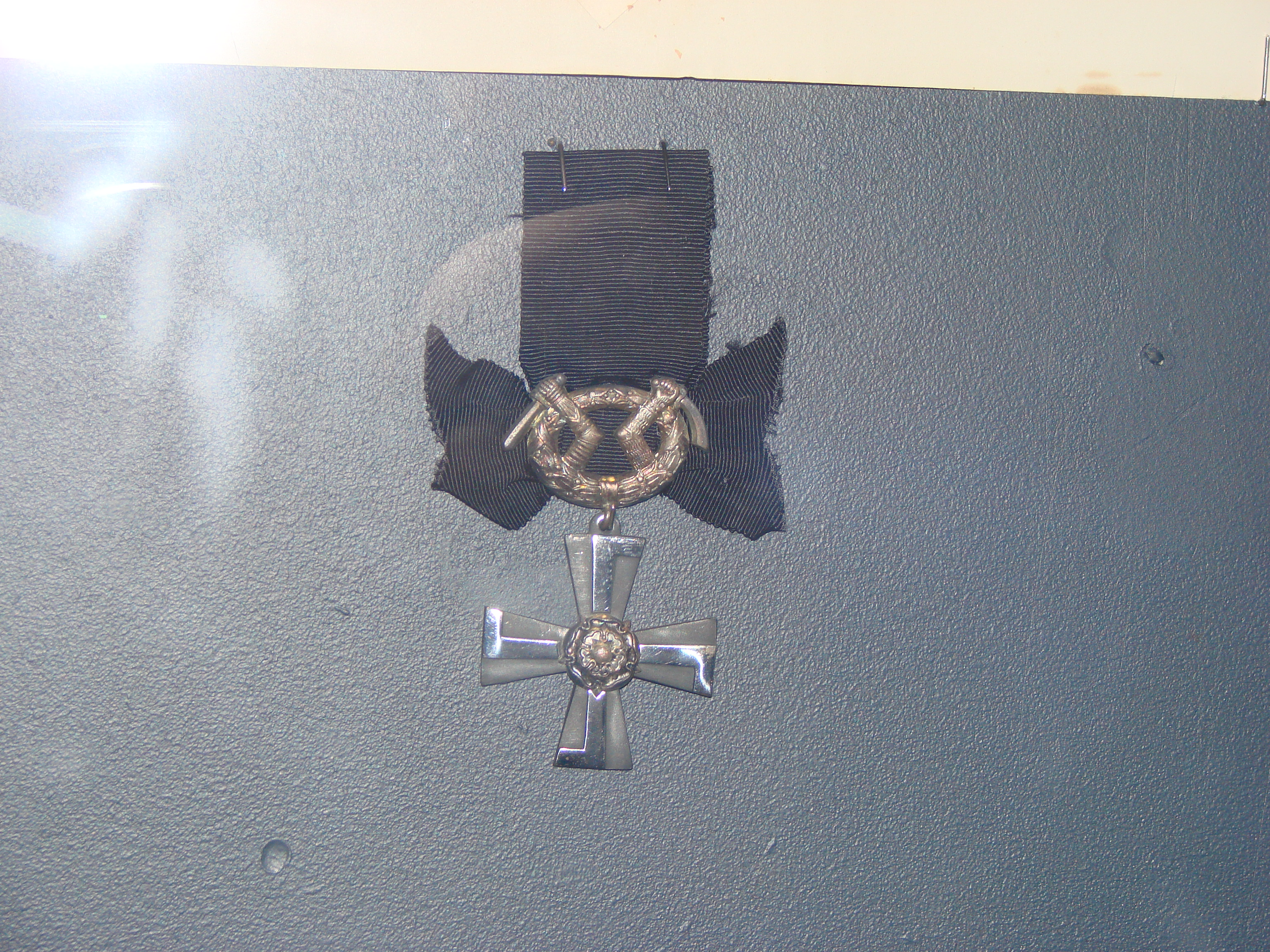 The Mourning Cross of the Order of the Cross of Liberty (Finland): this decoration is issued to the closest female relative of a fallen Finnish soldier.